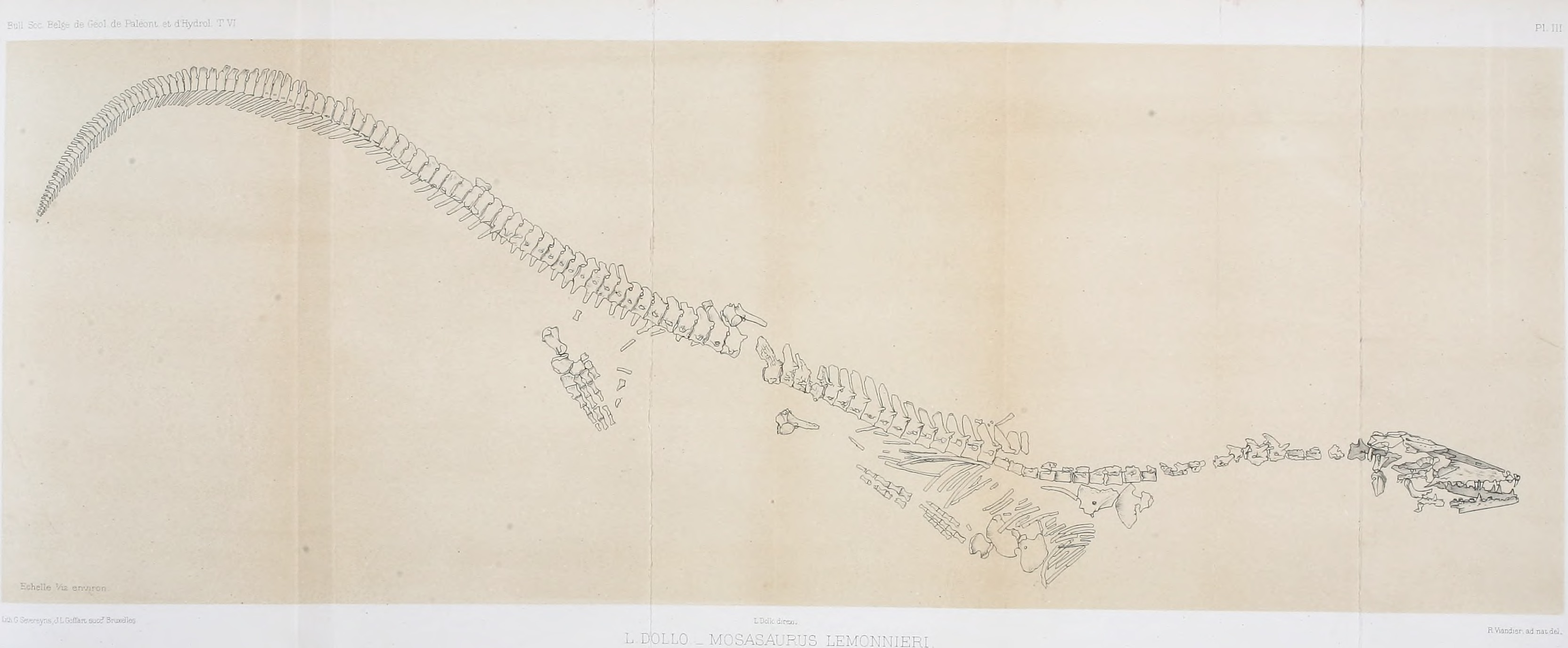 Title: Bulletin de la Société belge de géologie, de paléontologie et d'hydrologie Year: 1887 (1880s) Authors: Société belge de géologie, de paléontologie et d'hydrologie Subjects: Geology; Paleontology Publisher: Bruxelles : The society Text Appearing Before Image: ' Text Appearing After Image: '